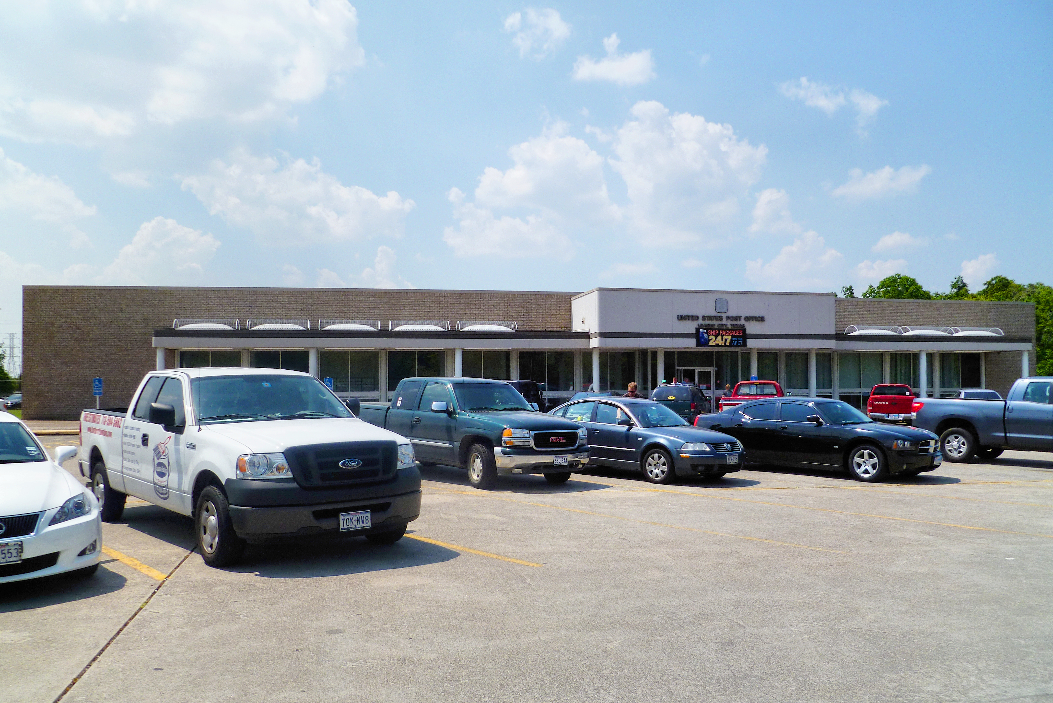 Post Office. League City, Texas, USA. - 77573